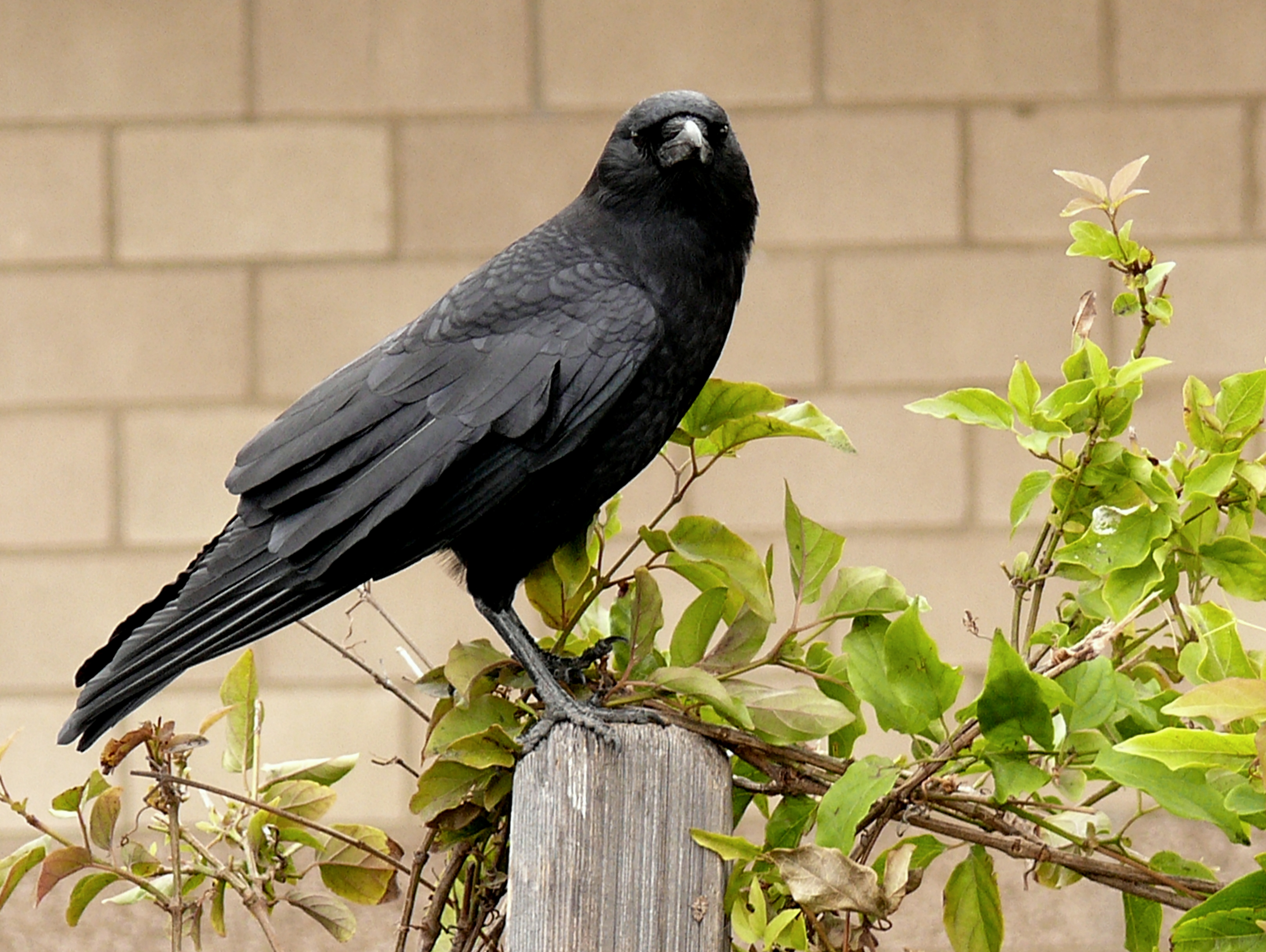 American Crow